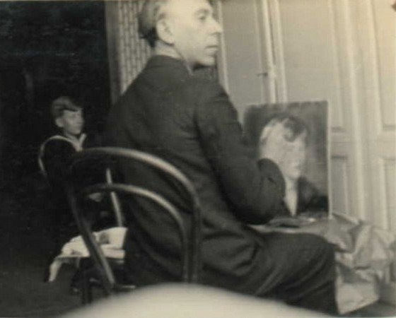 The painter Leon ZACK at work in Brussels around 1933